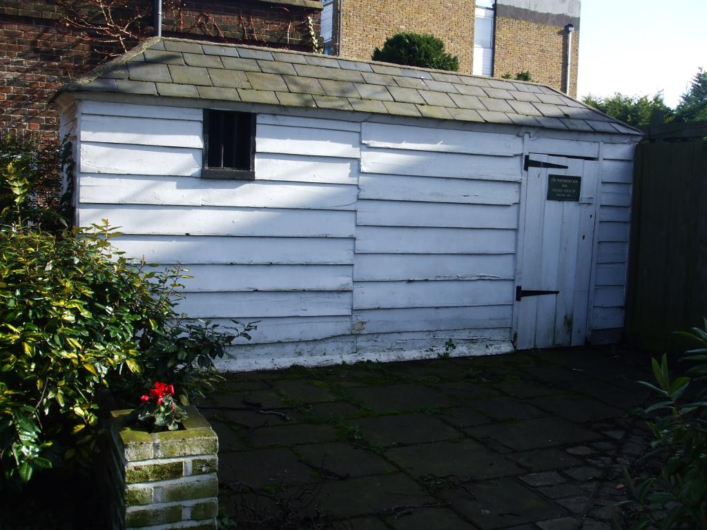 Watchman's hut and lock-up, Petersham, London, erected 1787. Constructed by the order of the local vestry, it served as a shelter for the well-armed parish constable or watchman who protected the village from the highwaymen active on the road at the time. The building doubled as a temporary prison, prior to the formation of the Metropolitan Police in 1829. A walled pound in front of the hut served to enclose stray cattle. Preserved by the Ancient Monuments Committee and Surrey County Council in 1955, it was Grade II listed 25 June 1983, and added to English Heritage's list of important buildings at risk in 1984. The lock-up has been preserved by the action of the local Ham and Petersham Association with support from the Environment Trust and Historic Buildings Trust.